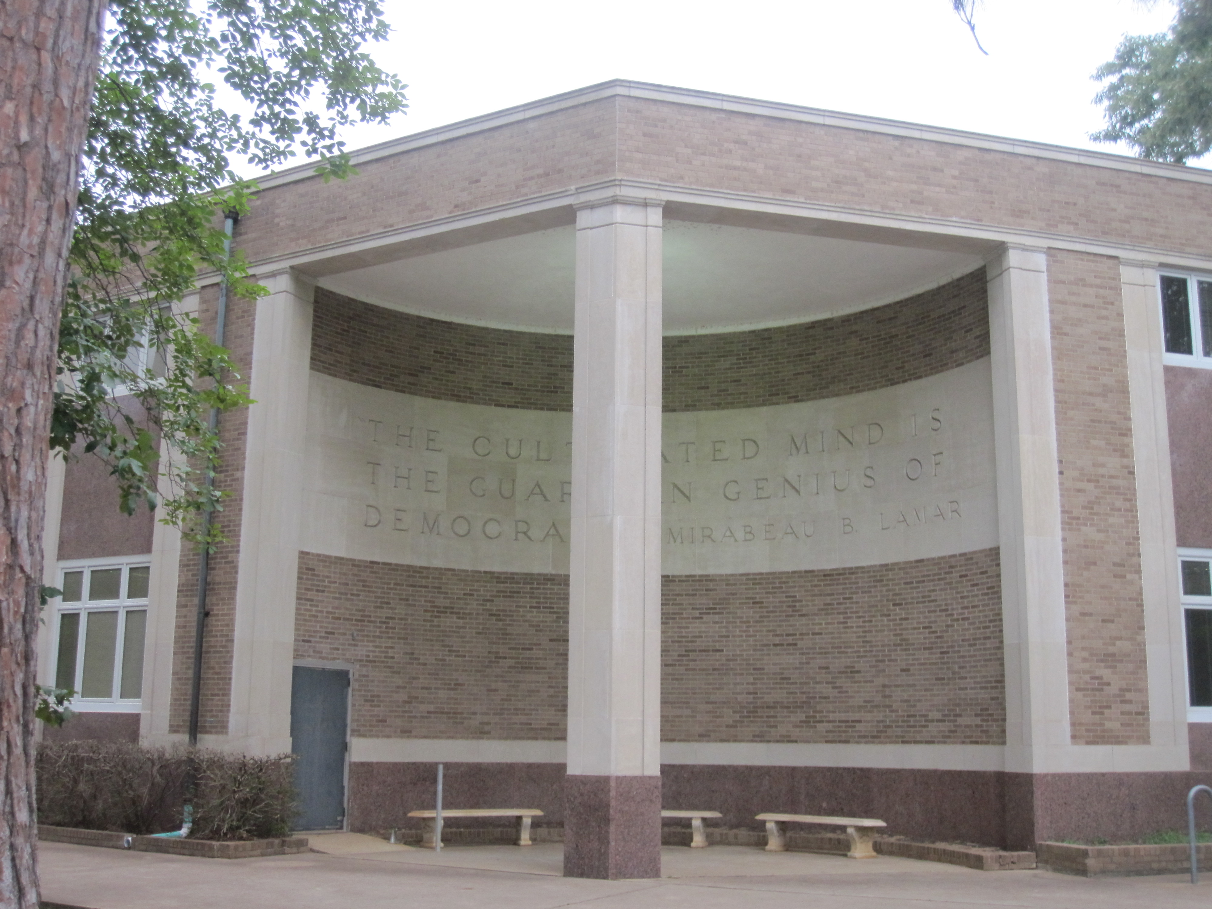 I took photo with Canon camera.